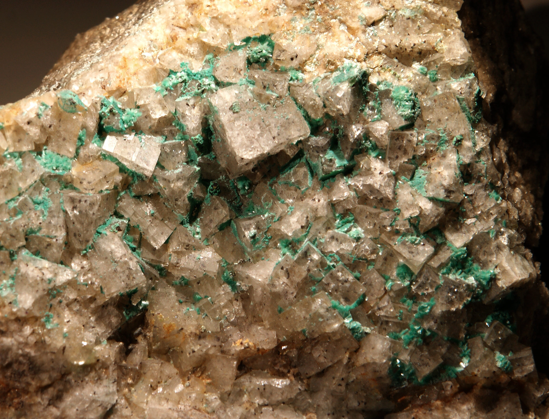 Aurichalcite with Fluorite - Rutland Cave Mine (Nestus Mine), Heights of Abraham, Matlock Bath, Derbyshire, England (9.5x7cm)